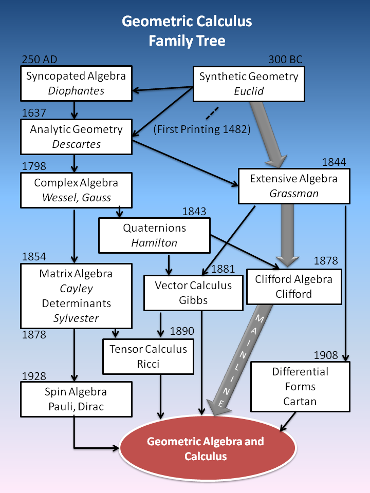 This diagram shows the mathematical framework inheritance path of Geometric Algebra